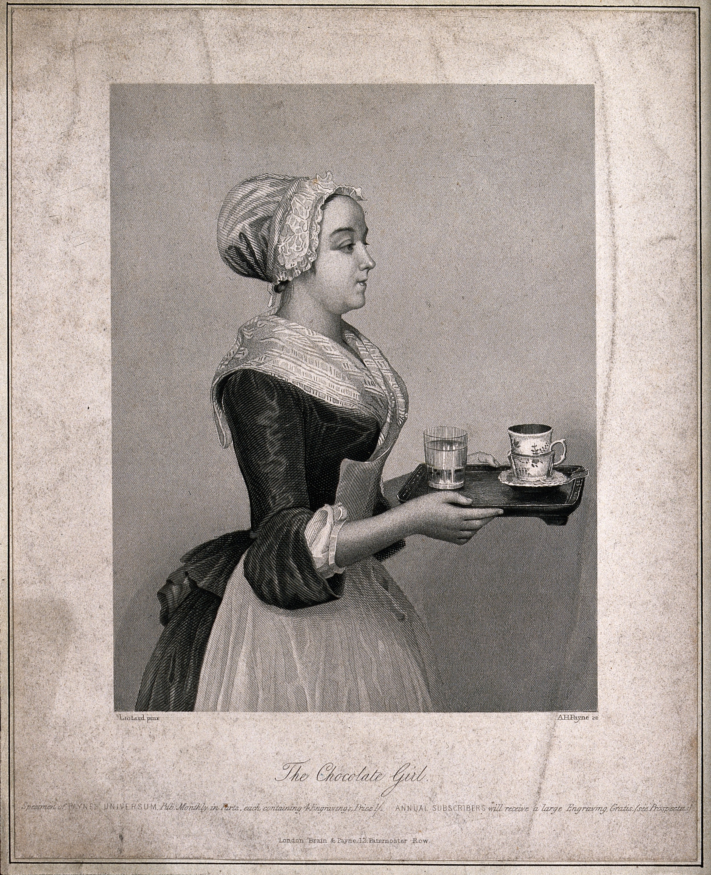 A pretty maid carrying drinking chocolate on a tray. Stipple engraving by A. H. Payne after Liotard, c. 1743. Iconographic Collections Keywords: CHOCOLATE; maid; Albert Henry Payne; liotard; Cacao; Jean-Etienne Liotard